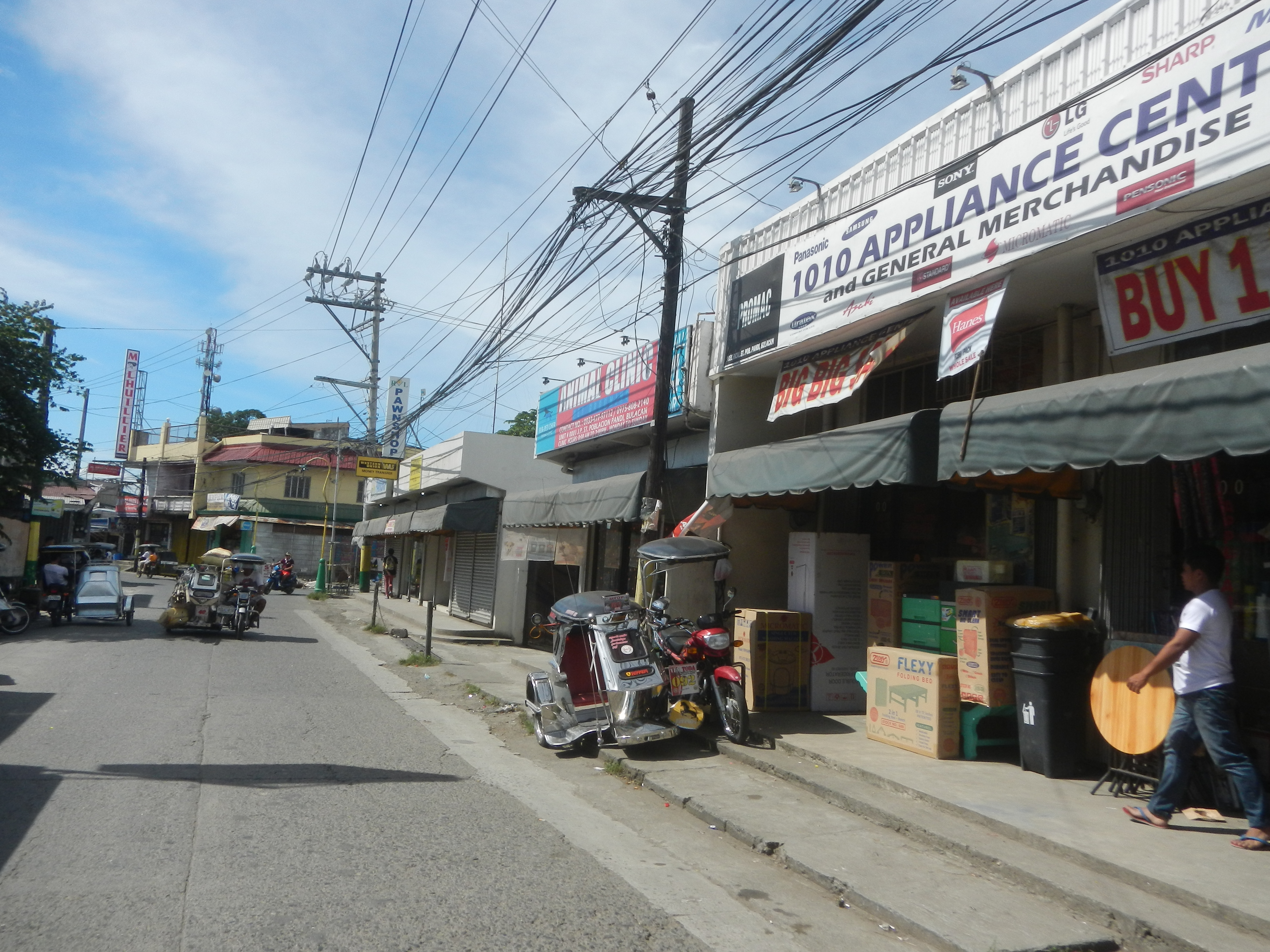 Pasong Kalabaw Street - J. Bernardo Street, Poblacion Town Proper-San Roque, Pandi, Bulacan Municipal Road from the Construction of Cupang-Bagong Barrio, Pandi, Bulacan Municipal Road from Liciada and Malamig, Bustos, Bulacan Arterial Municipal Road Baliuag Pandi Road General Alejo Santos Highway (Tanauan and Bonga Menor, Bustos, Bulacan section) Barangays Cupang 14°54'4"N 120°56'38"E Bagong Barrio 14°53'35"N 120°57'12"E Poblacion 14°52'2"N 120°57'25"E Jose Bernardo Street (Pandi) 14°52'0"N 120°57'24"E Pandi Angat Road (Pandi) 14°52'5"N 120°57'26"E San Roque 14°51'21"N 120°57'13"E Pandi, Bulacan Jose Bernardo Street (Pandi) 14°52'0"N 120°57'24"E Pandi Angat Road (Pandi) 14°52'5"N 120°57'26"E (Note: Judge Florentino Floro, the owner, to repeat, Donor Florentino Floro of all these photos hereby donate gratuitously, freely and unconditionally all these photos to and for Wikimedia Commons, exclusively, for public use of the public domain, and again without any condition whatsoever).